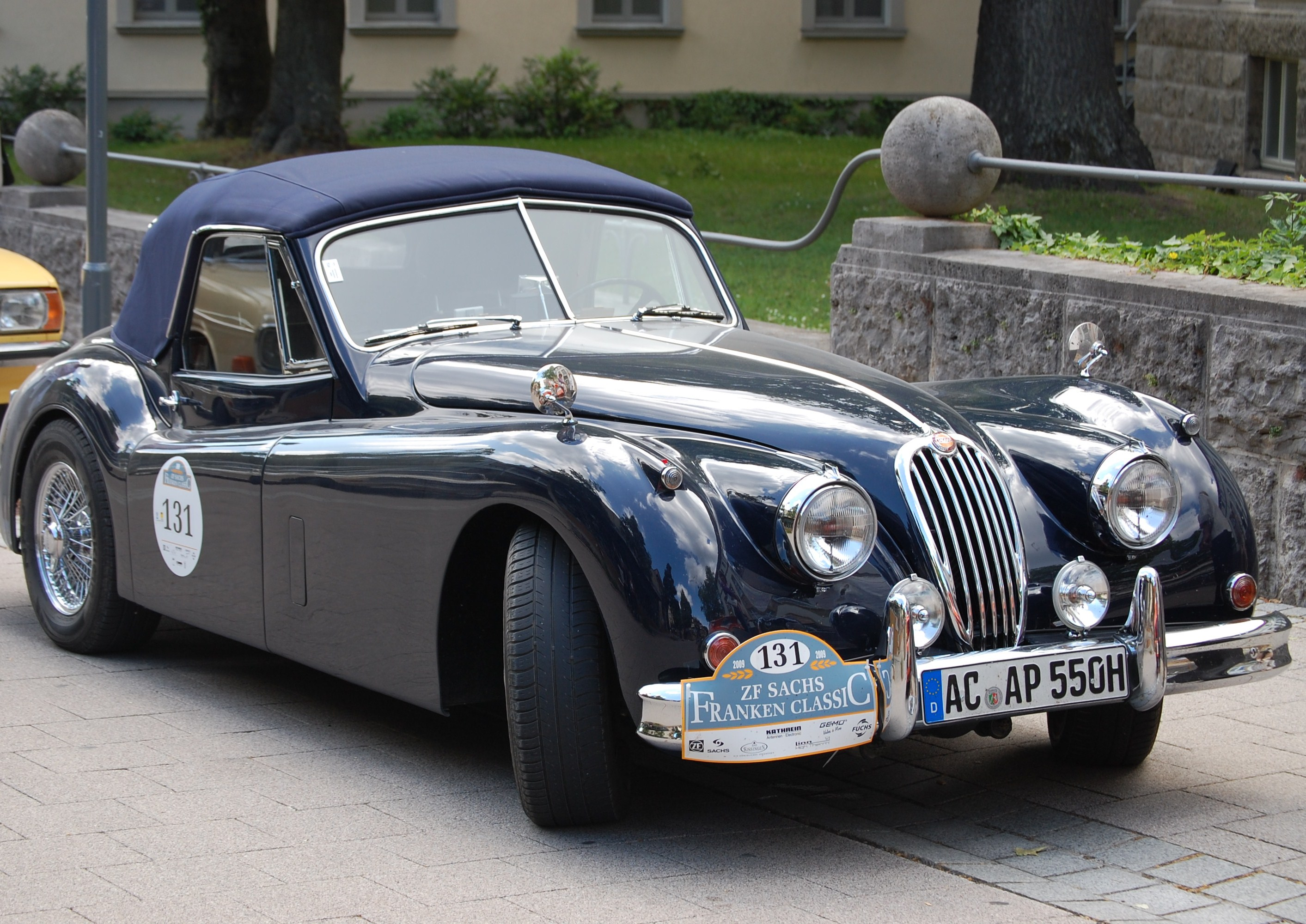 Jaguar XK 140 DHC (1956)